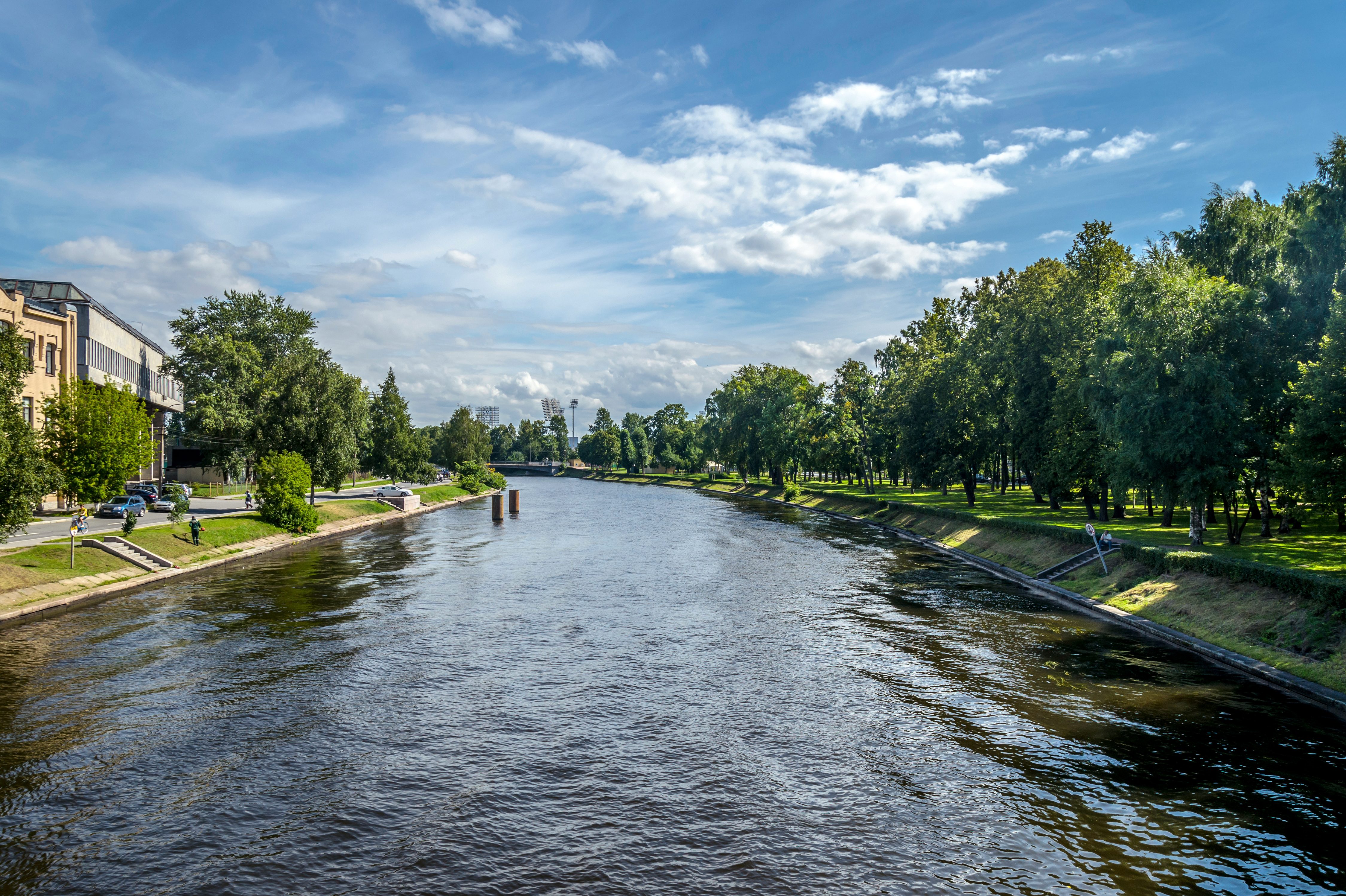 Zhdanovka River in Saint Petersburg